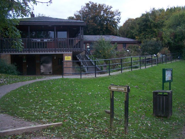 Visitor Centre for Capstone Country Park Fishing permits to fish in the lake are obtained here, also other information about the park and events can be found here. There is also a child friendly park display inside.